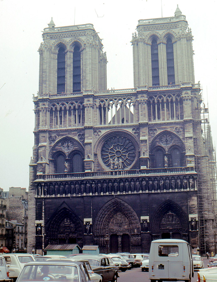 Notre Dame